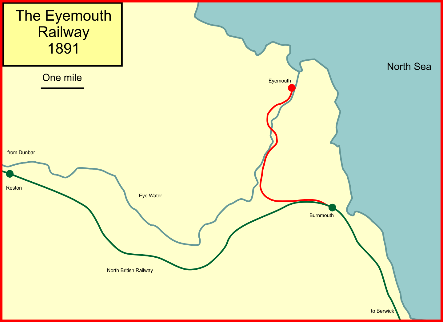 System map of the Eyemouth Railway, Scotland, in 1891